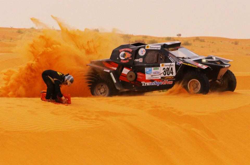 Arche Africa Eco Race